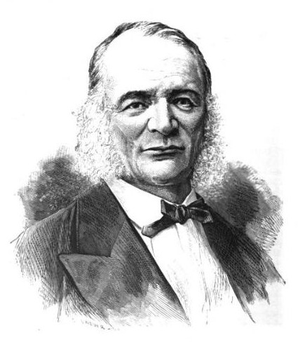 Drawing of Otto Wilhelm Struve, the famous Russian astronomer